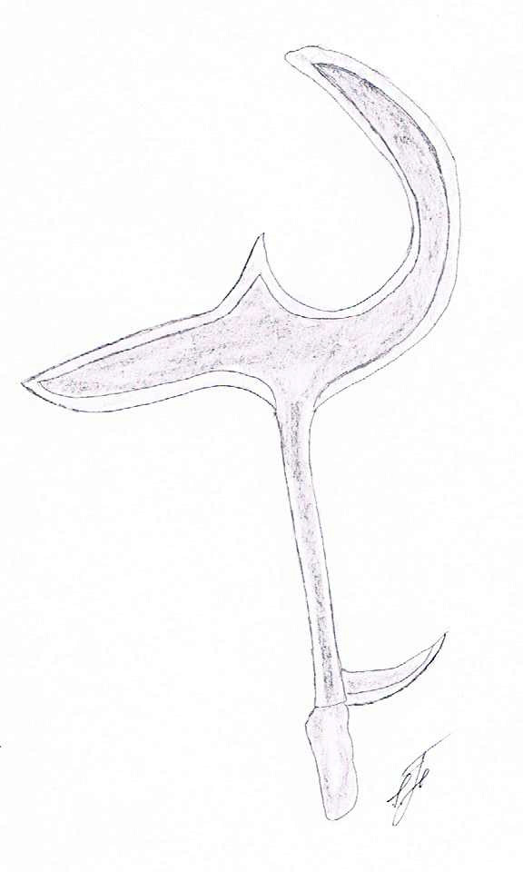 G'Baja Throwing Knife 2